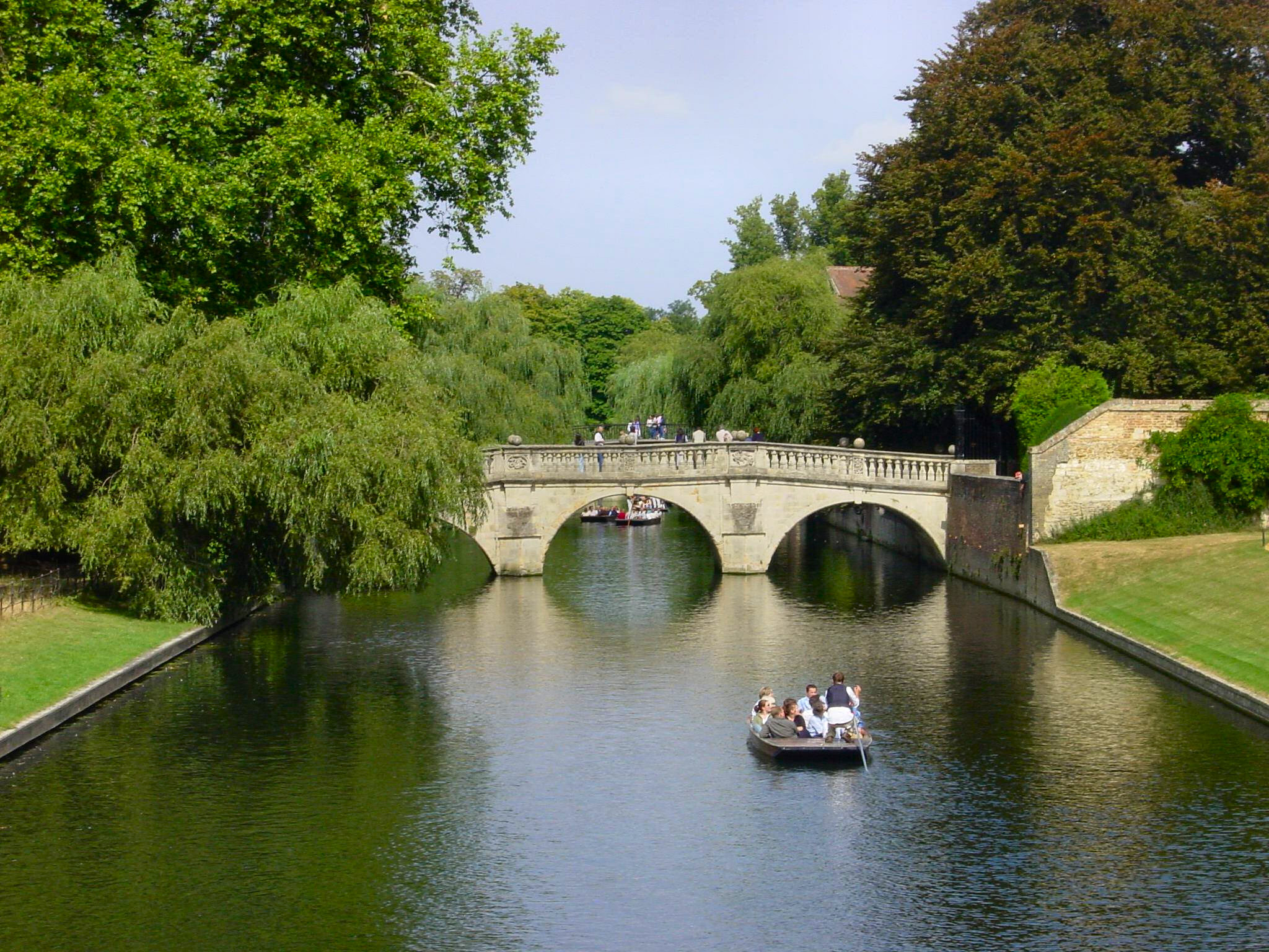 Clare Bridge over the River Cam. Date = 2003-08-27 11:44 Camera = Sony DSC-P5 Exposure = 1/200 Focal length = 20mm F number = 9.0 ISO = 100 modifications = None